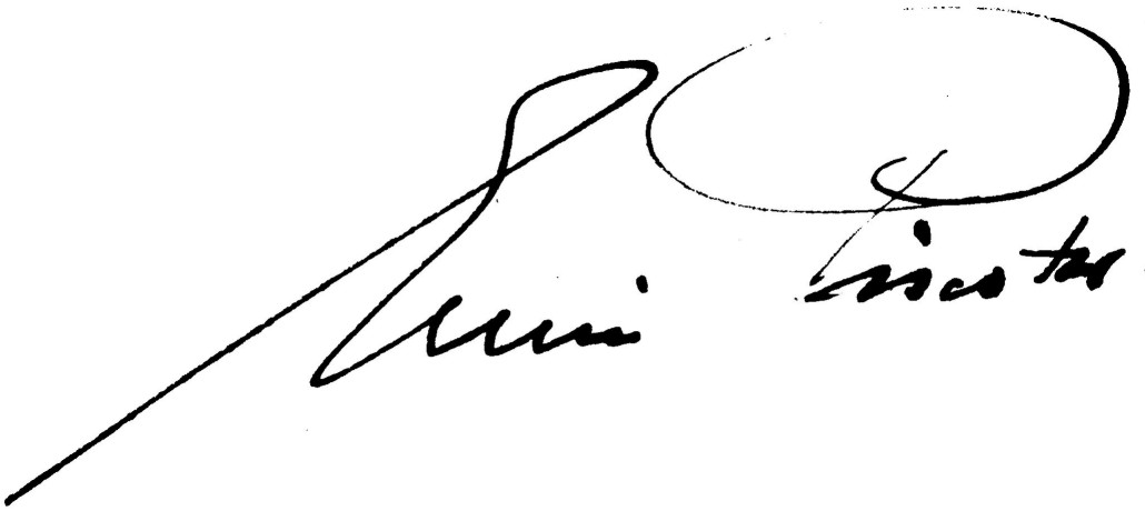 Signature of German director Erwin Piscator (1893-1966)